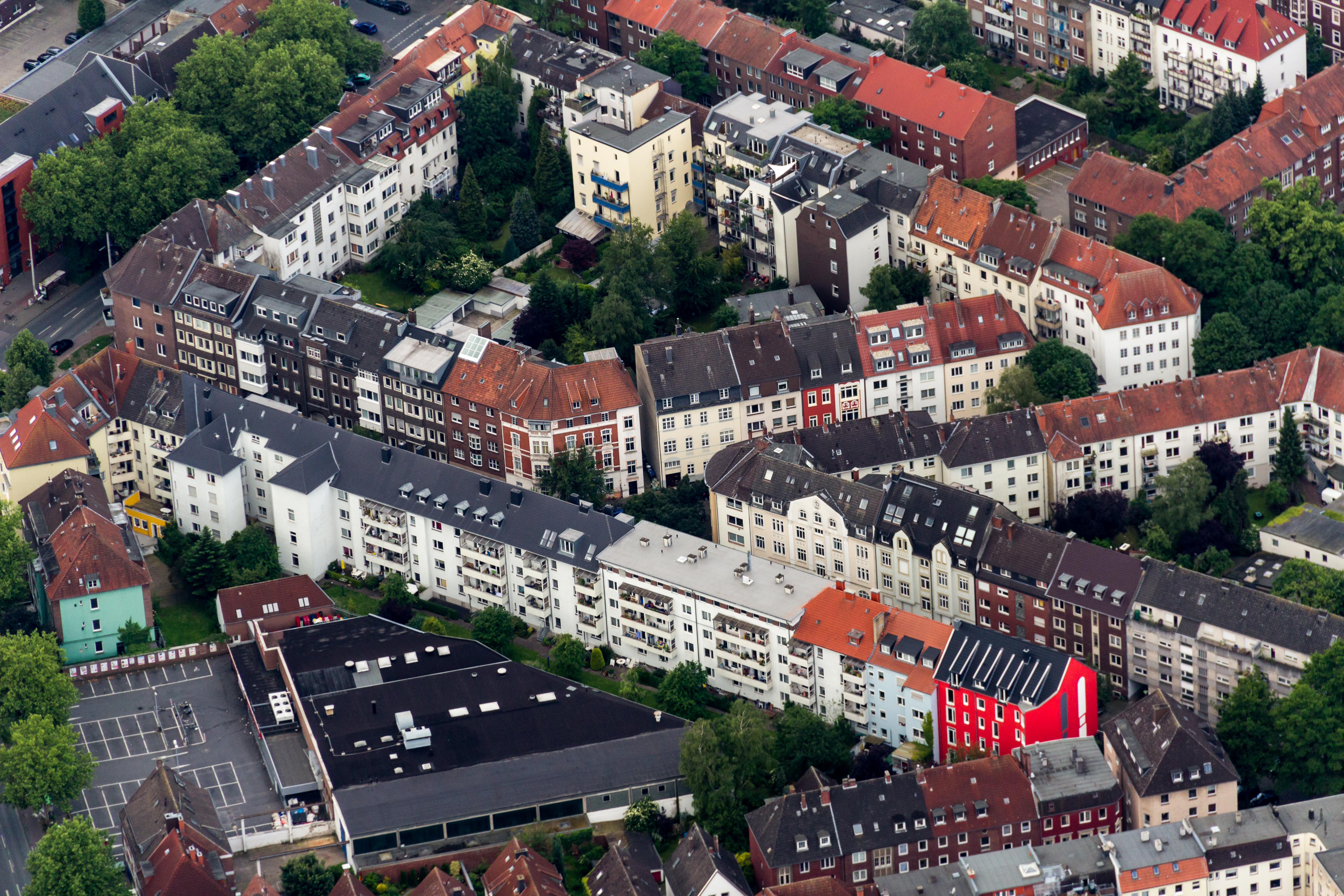 Buildings, Münster, North Rhine-Westphalia, Germany